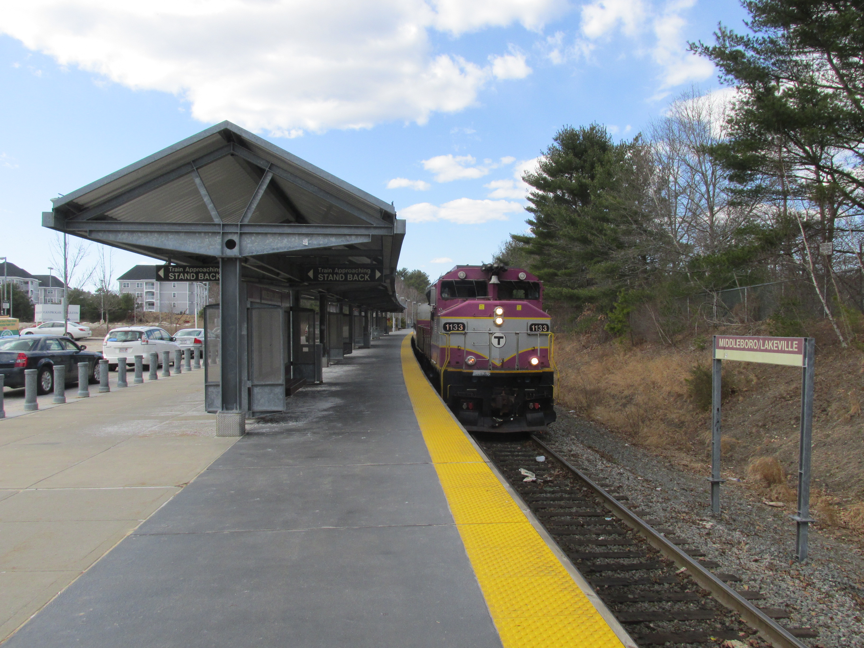 Outbound train entering Middleborough-Lakeville MBTA station, Lakeville Massachusetts